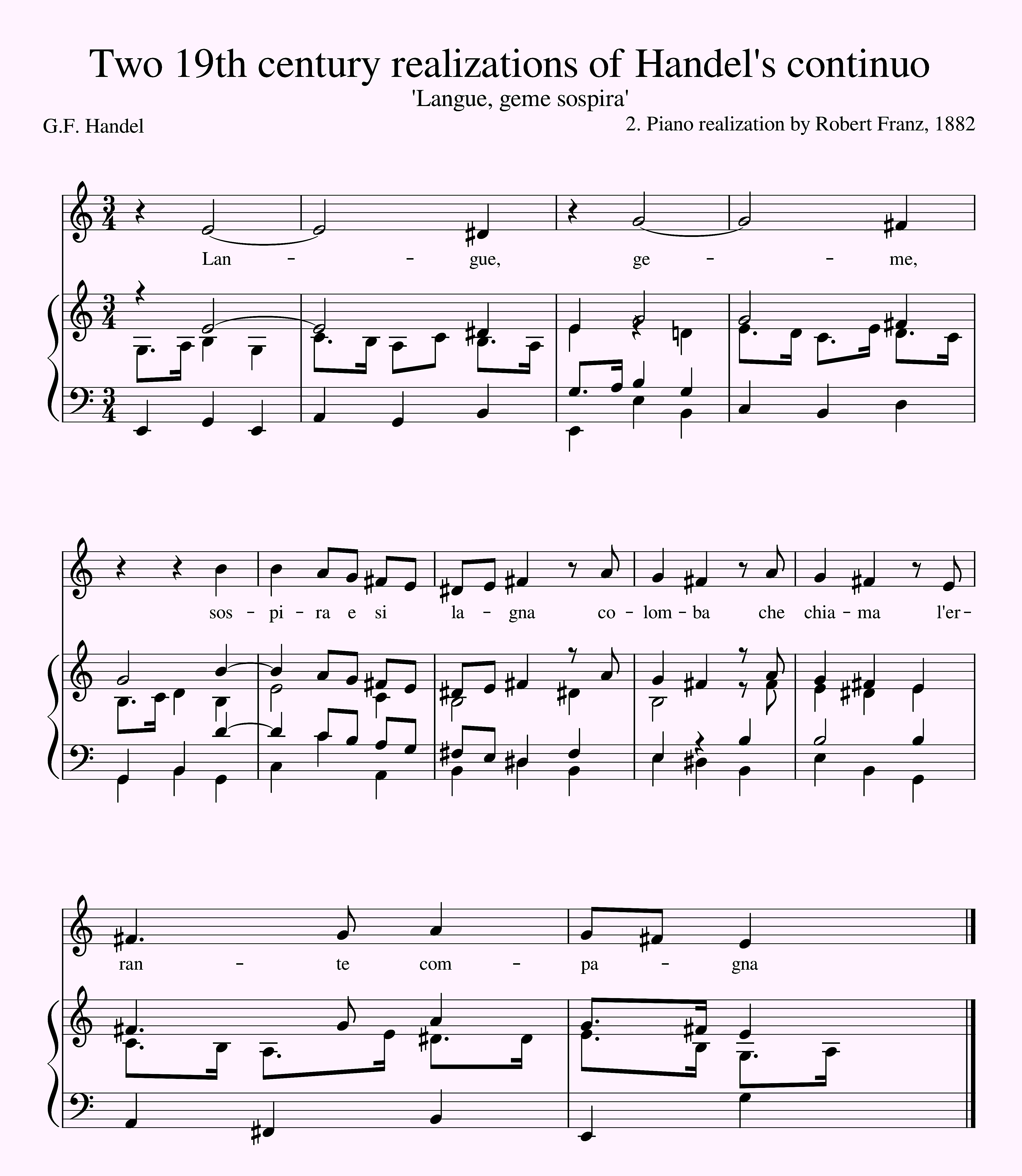 Robert Frant's piano realization of Handel's duet 'Langue. geme, sospira'